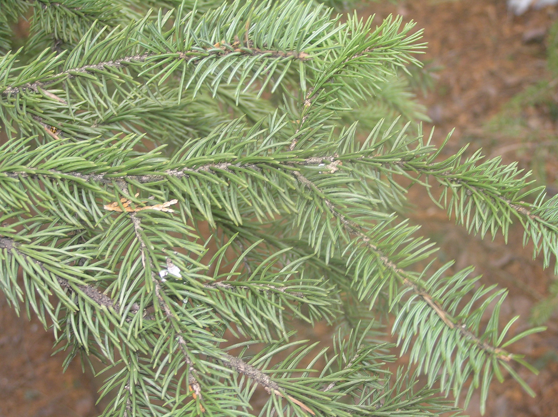 Picea meyeri, cultivated in Brno, Czech Republic